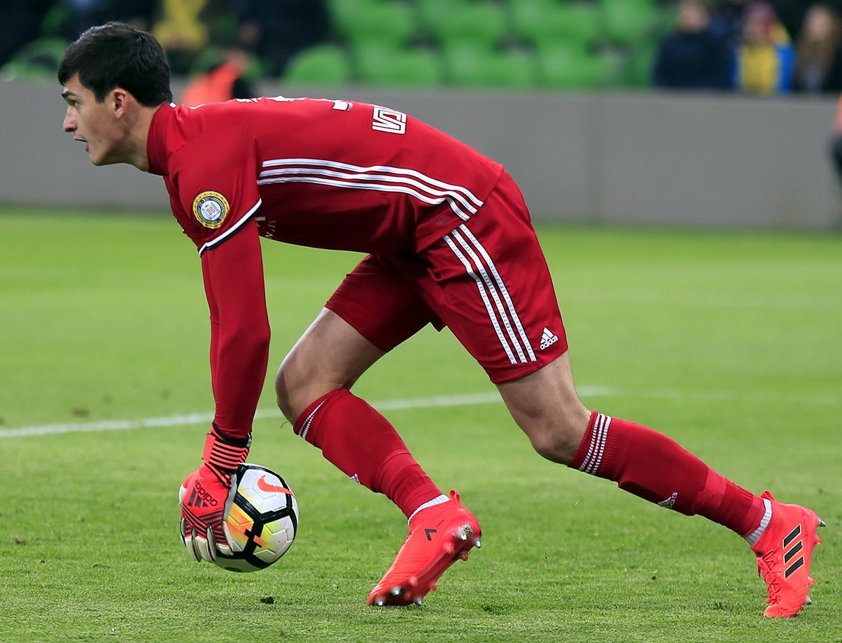 Vitali Gudiyev with FC Akhmat Grozny in a game against FC Krasnodar.